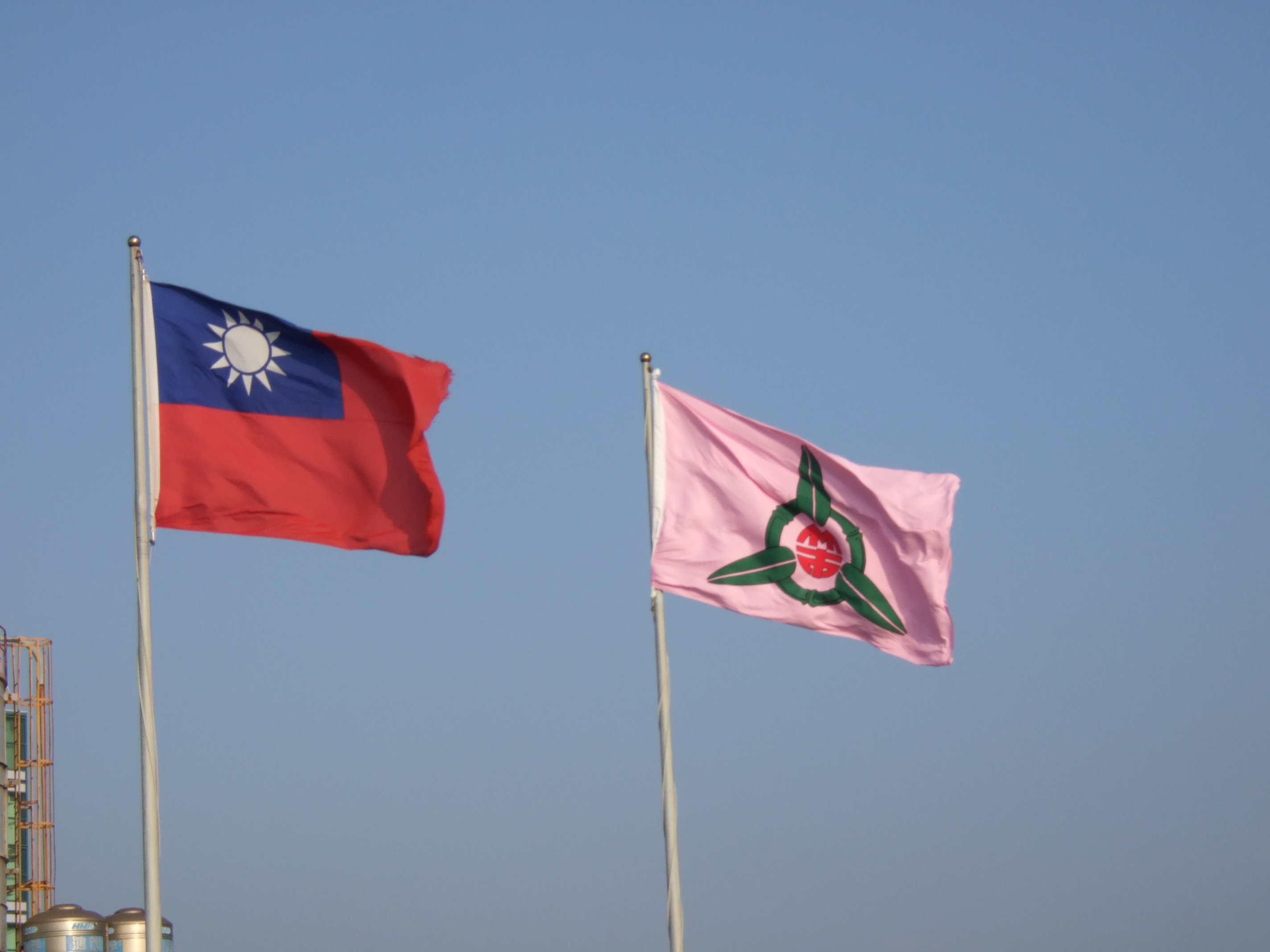 Flags of Hsinchu City and Republic of China on Taiwan